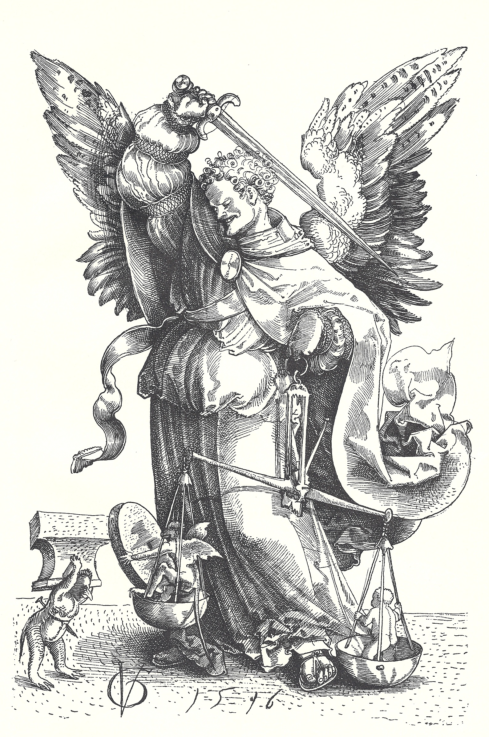 Urs Graf: "Archangel Michael as the weigher of souls". Pen drawing.